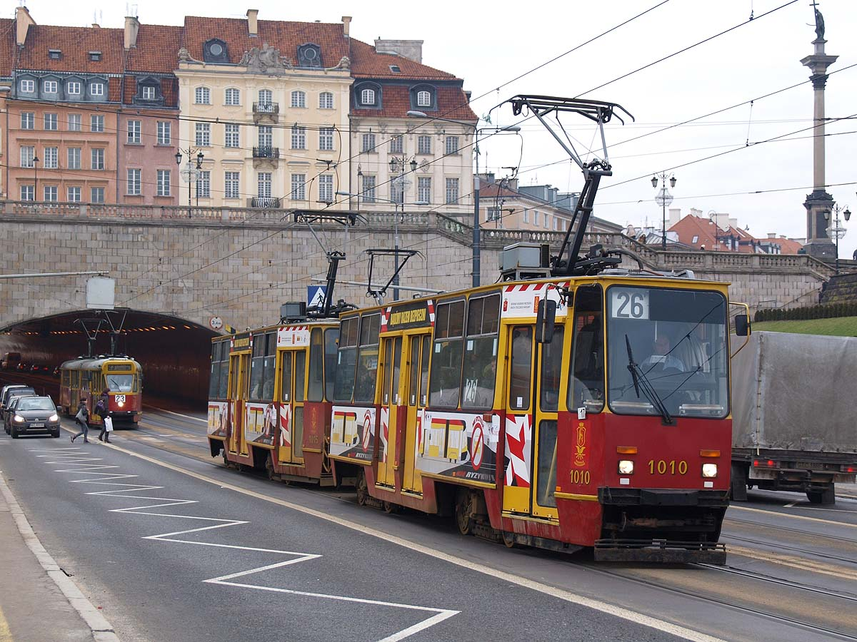 Konstal105Na of Warsaw tram. Taken at Stare Miasto stop. Background is Warsaw old town.